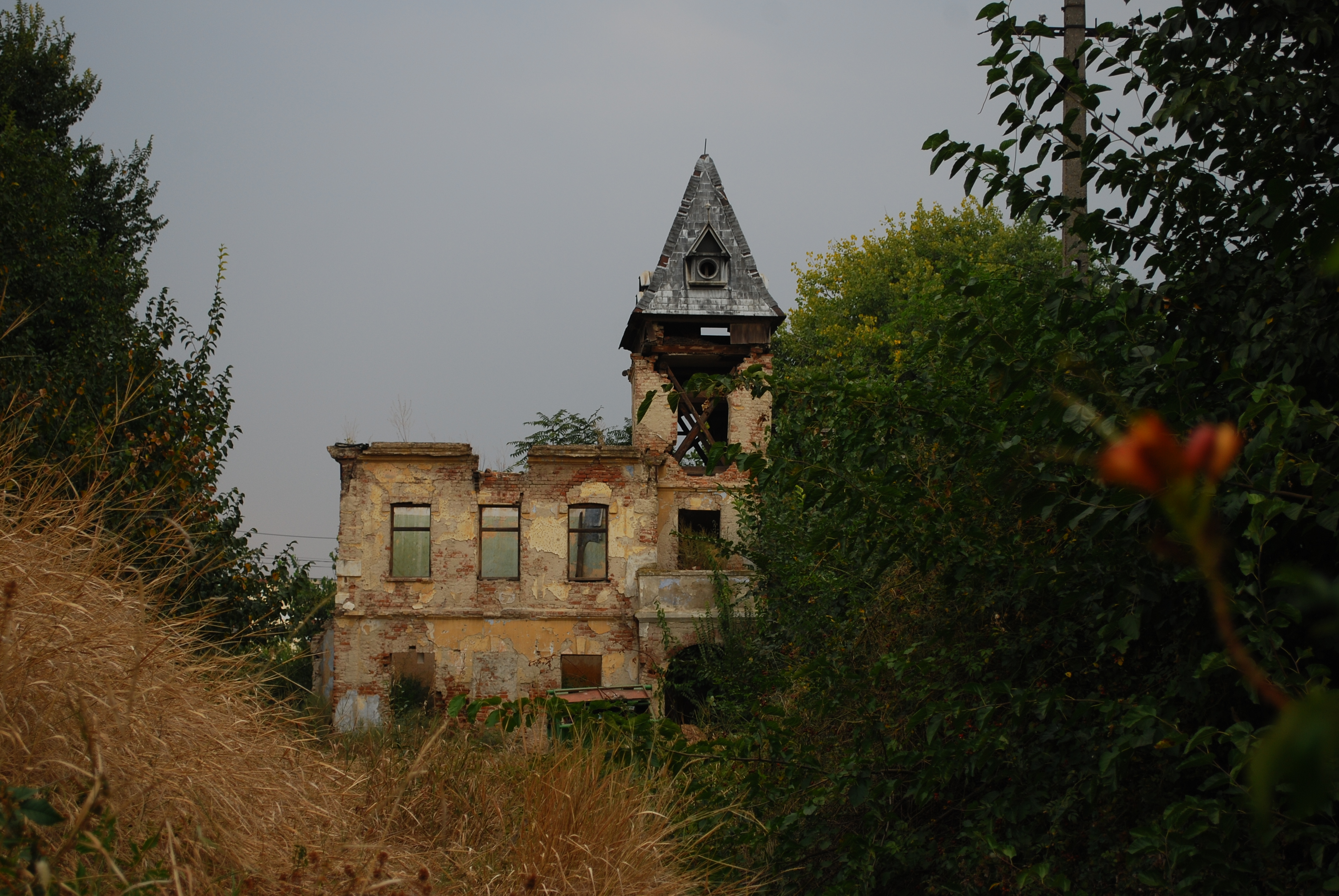 Annex buildings on the Marghiloman estate in Buzău, RomaniaRomână: Clădiri-anexă la conacul Marghiloman din Buzău, România 02